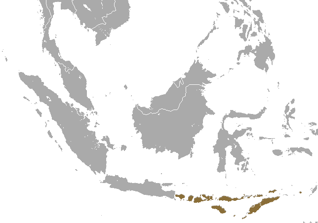 Western Naked-backed Fruit Bat (Dobsonia peronii) range